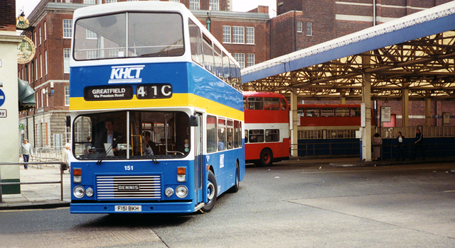 Kingston Upon Hull City Transport bus 151 (reg. F151 BKH), a 1988 Dennis Dominator double-decker with East Lancs E Type bodywork, pictured leaving the old Kingston upon Hull bus station, which has since been redeveloped.